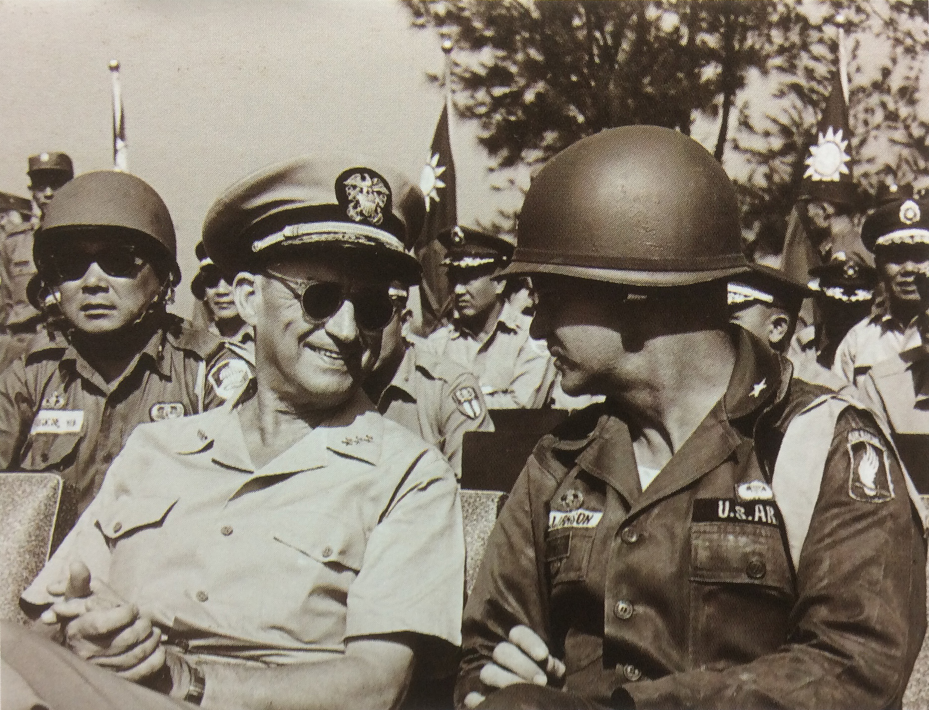 U.S. Taiwan Defense Command Commander Vice Admiral Melson (left) and the officer presiding over the Tien Bing No. 4 exercise, General Williamson (right), are having a conversation on stage.